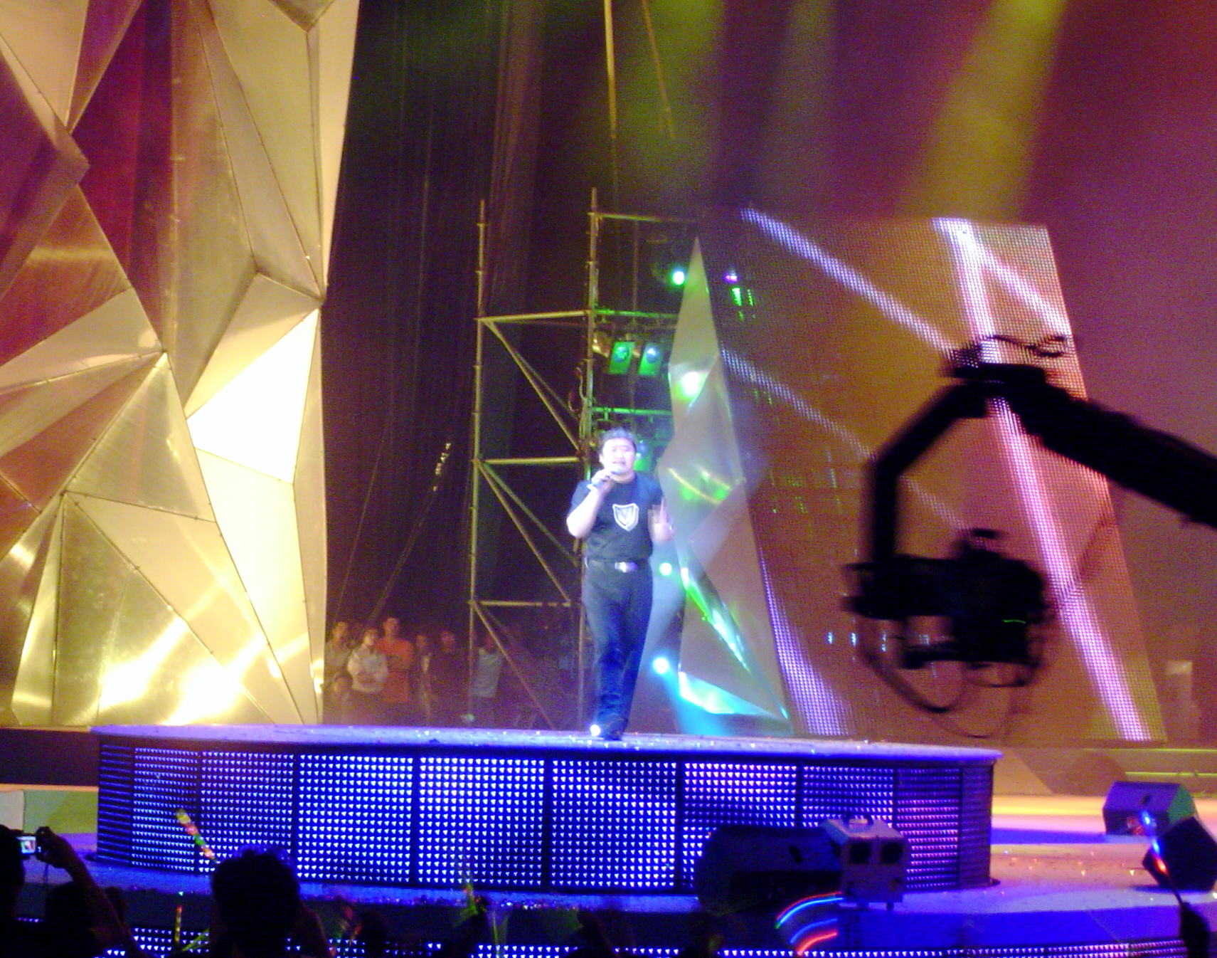 Liu Huan,is a Chinese Mandopop singer and songwriter.